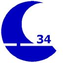 Segelmärke, Comfort 34